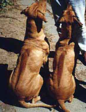 Examples of ridges on Rhodesian Ridgebacks. Lionsperil Beaufighter (Mak), Ch Ravvar Cor Cassiopeia ET (Cass) & their daughter Ch Kyalami Cas Beaujolais (Jo). Both parents won Best Ridge at Specialty Shows in South Australia. Mak, on the left was a brown nose RR. These are my dogs & the photo was taken by me, Kyalami2001.